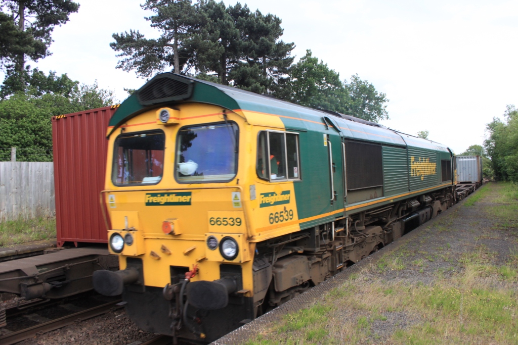 A Freightliner container train from Felixstowe speeds through Derby Road station in Ipswich behind 66539. This is a passing place on a single line so the container train going to Felixstowe on the other track has stopped to let it go past.